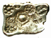 This was the First coin of India before 5th century BC..Minted in Madhyadesha,found near Mathura.. It has Silver unit Seven punch marks and weight of 7.14 gm